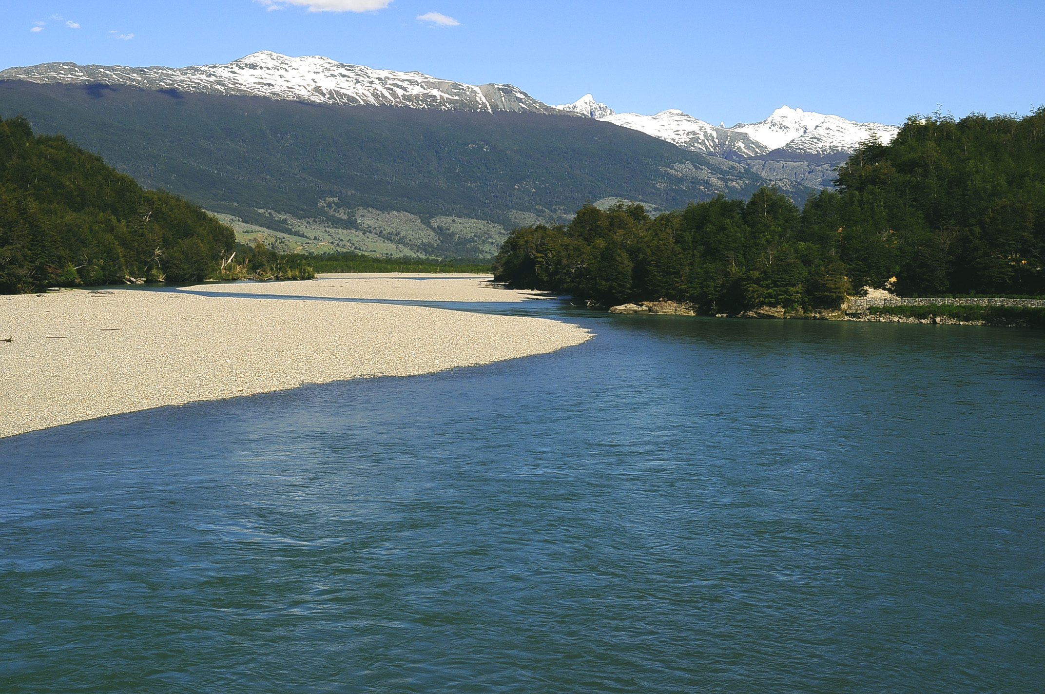 Murta River, near Puerto Murta, Aysén, Chile